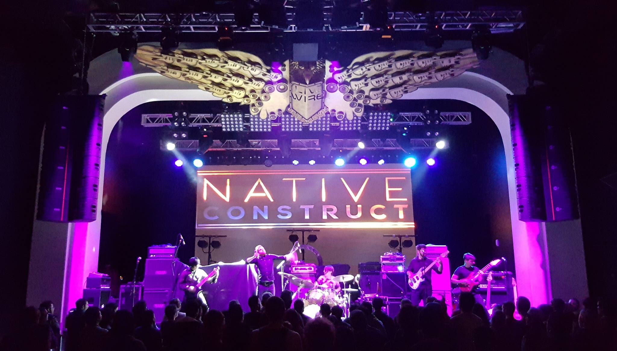 Live Photo